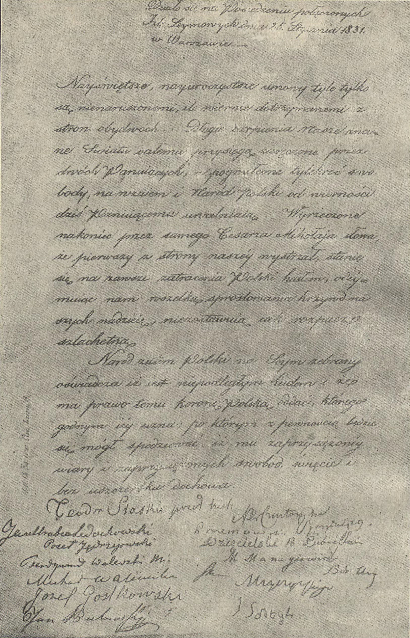 The act of the Polish Sejm (Diet) on the deposition of Nicholas I as the king of Poland